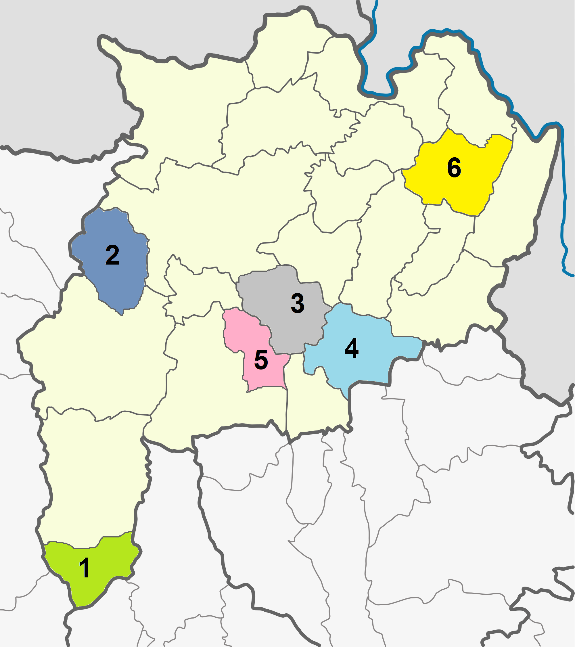 Chiang Rai Map-King Amphoe 2539